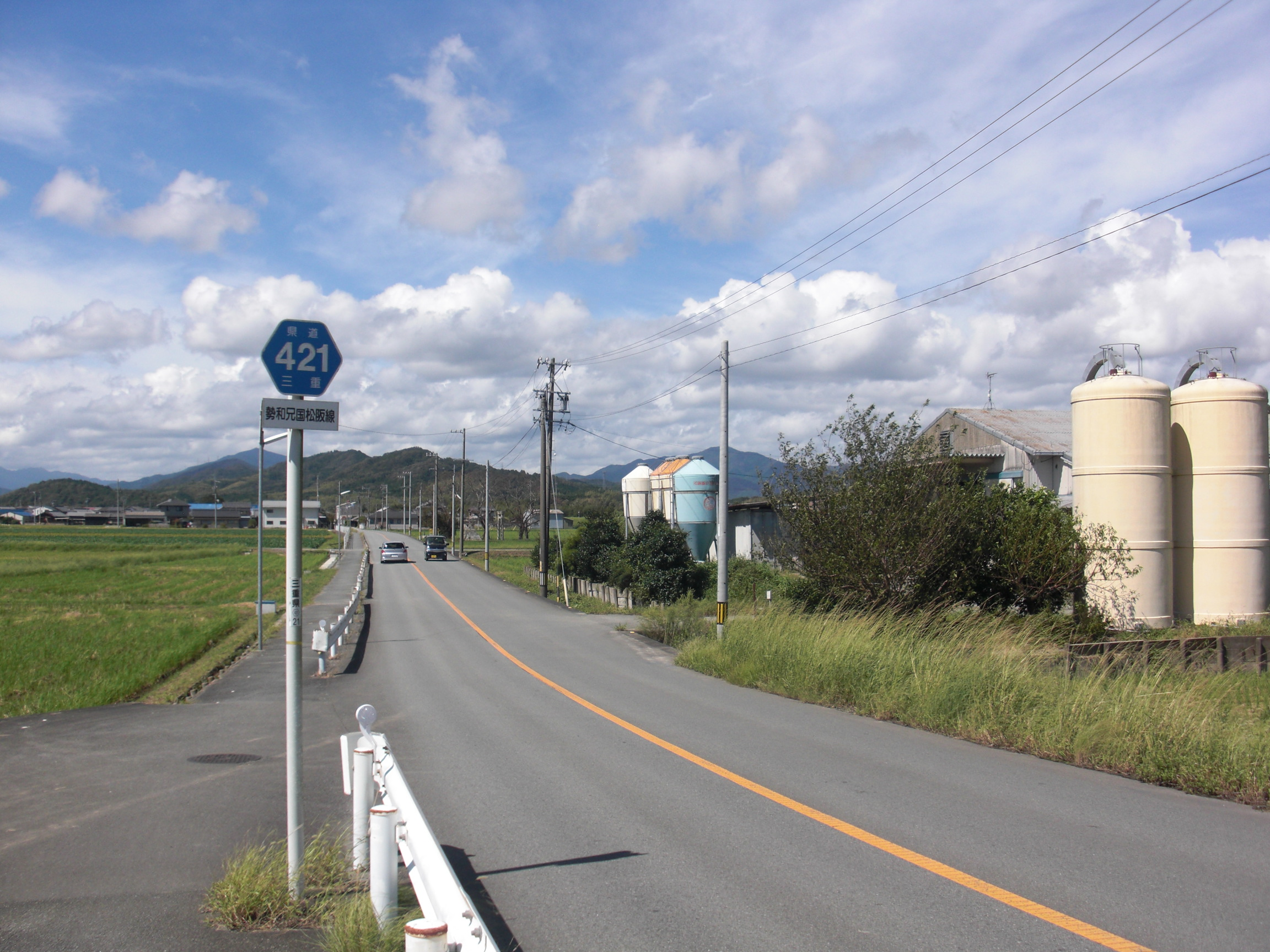 This is one scene of the Mie prefectural road No.421 Seiwa Ekuni Matsusaka Line in taki, Mie, Japan.